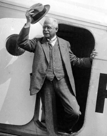 Gerald Strickland, as Prime Minister of Malta, alighting at Le Bourget Airport in 1930.